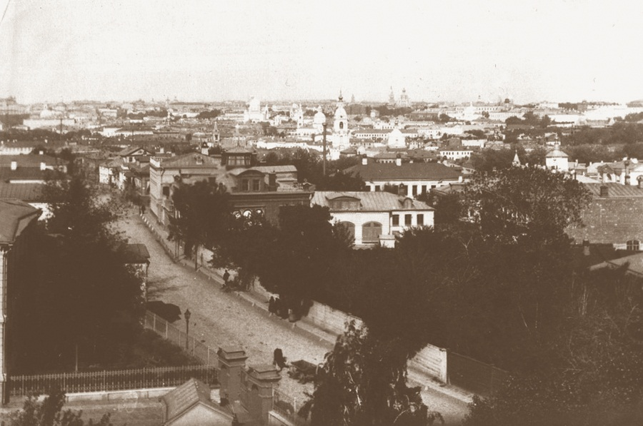 Goncharnaya Street, Moscow.